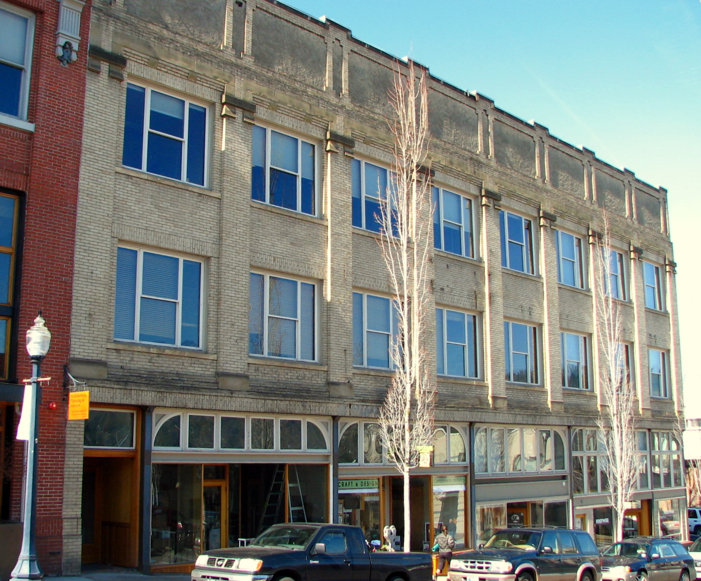 The historic Heilbronner Block, located at 110-118 3rd Street in Hood River, Oregon, United States, is listed on the US National Register of Historic Places.